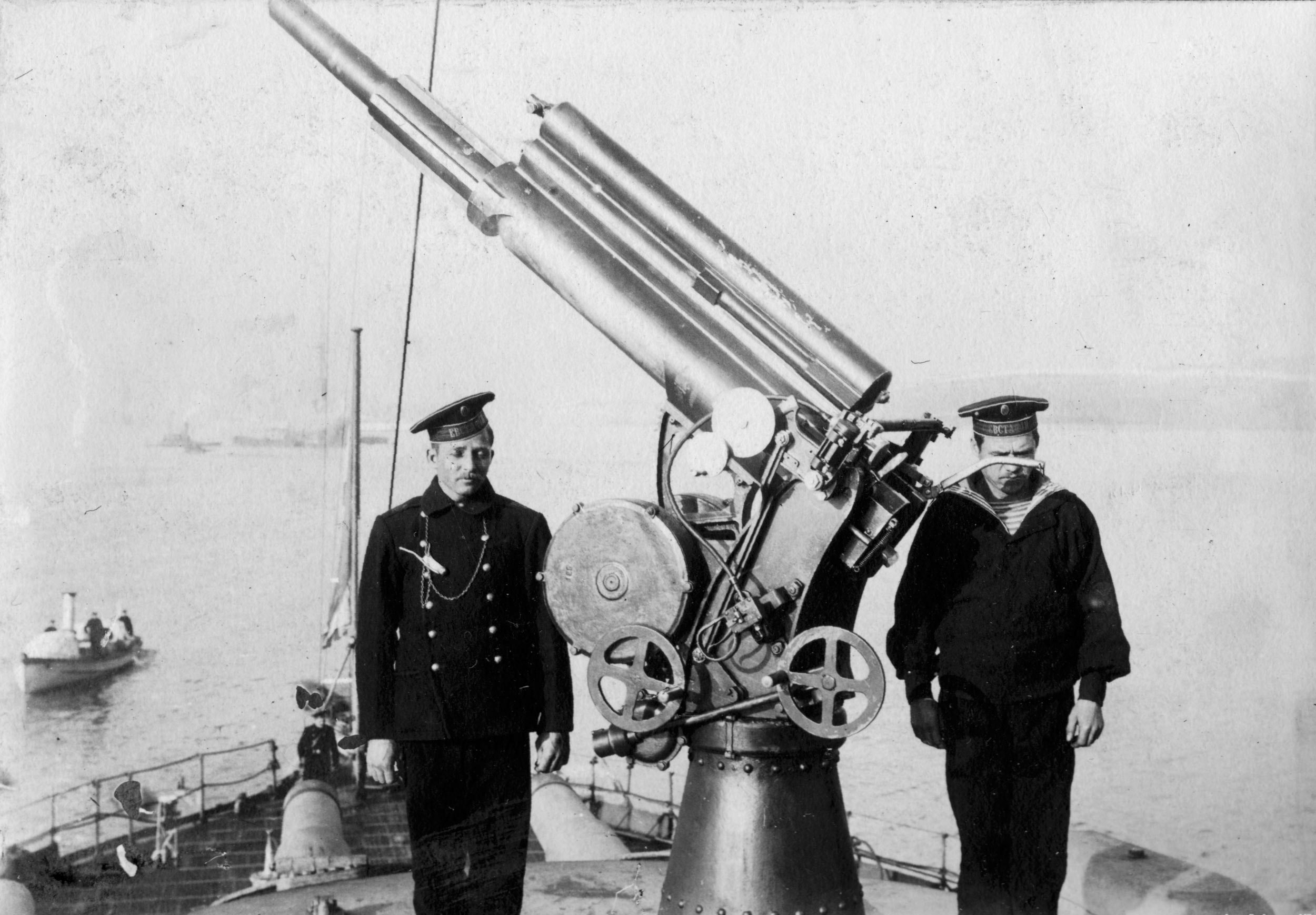 Obukhov plant 2.5 inch (63.3 mm) Pattern 1916 air-defense gun on battleship Evstafiy.